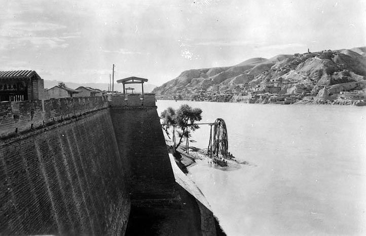 city wall in Lanzhou